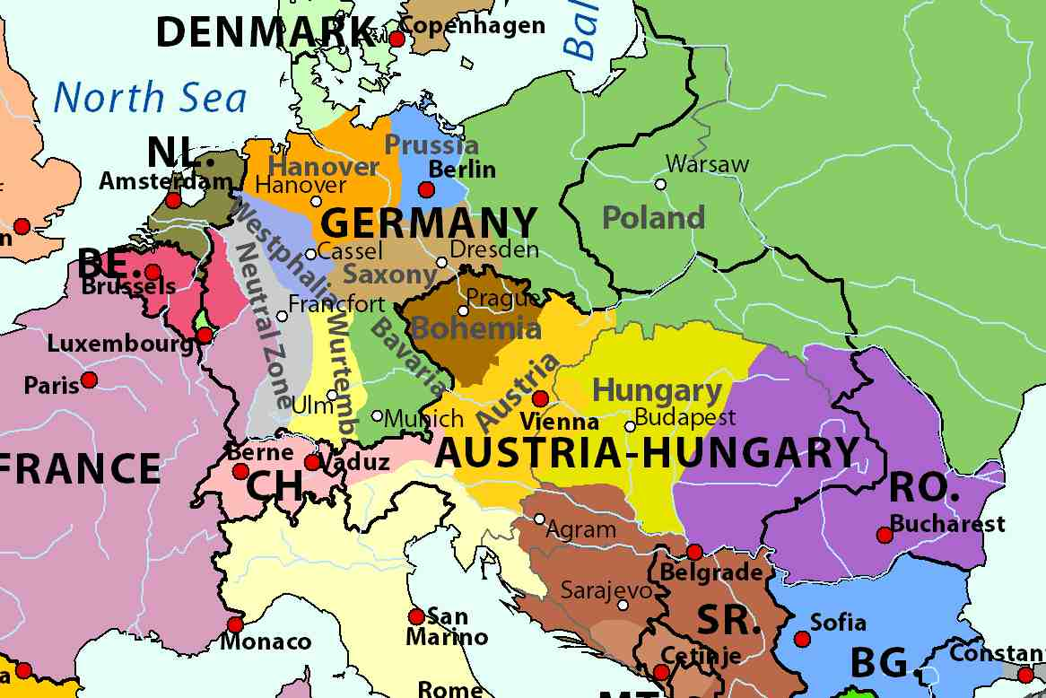 Ideas of post-WW I-Europe by French extremists, cutout with middle Europe. Original map is L'Europe future de demain. démembrement des empires Allemand & Austro-Hongrois - déchéance du Royaume de Prusse by F. Pigeon, published in Paris 1915.